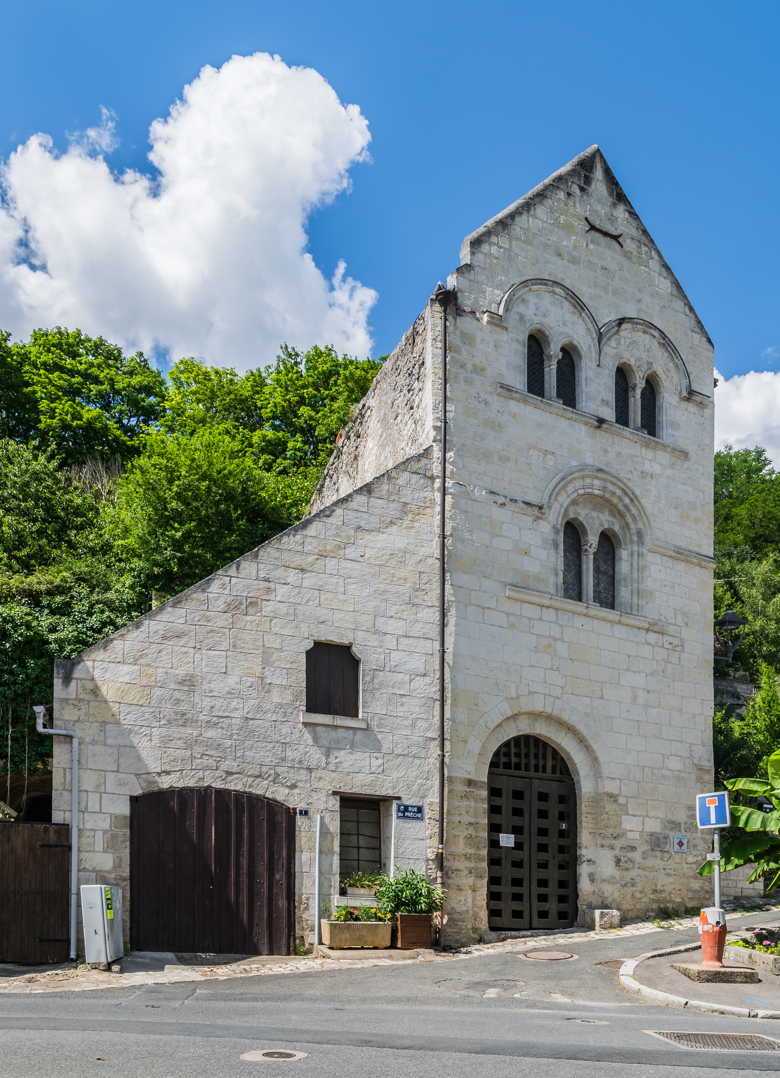 Maison du Prèche in Montrichard, Loir-et-Cher, France .